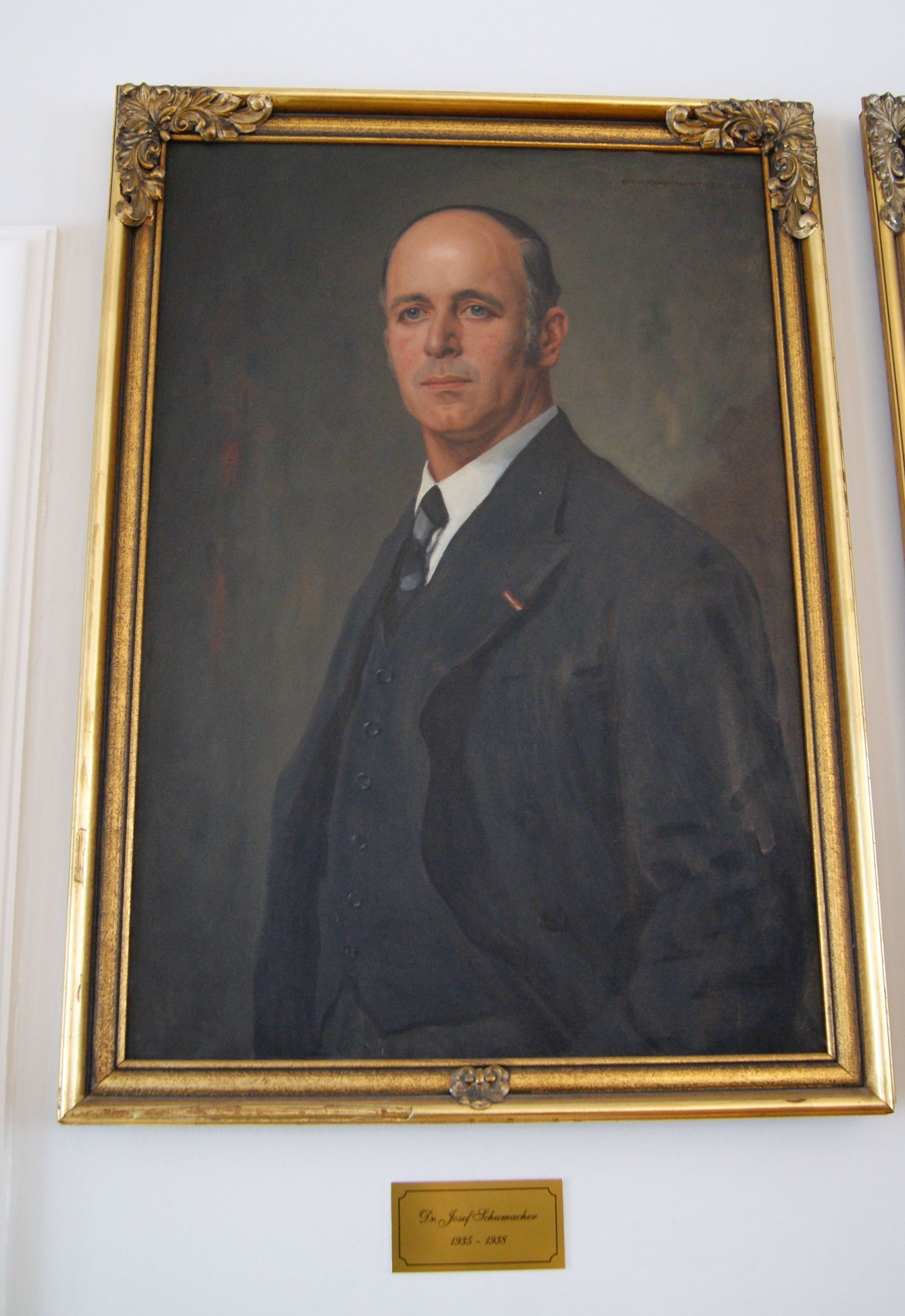 Josef Schumacher, head of the Provincial Government and the authority in charge of indirect federal administration of Tyrol.